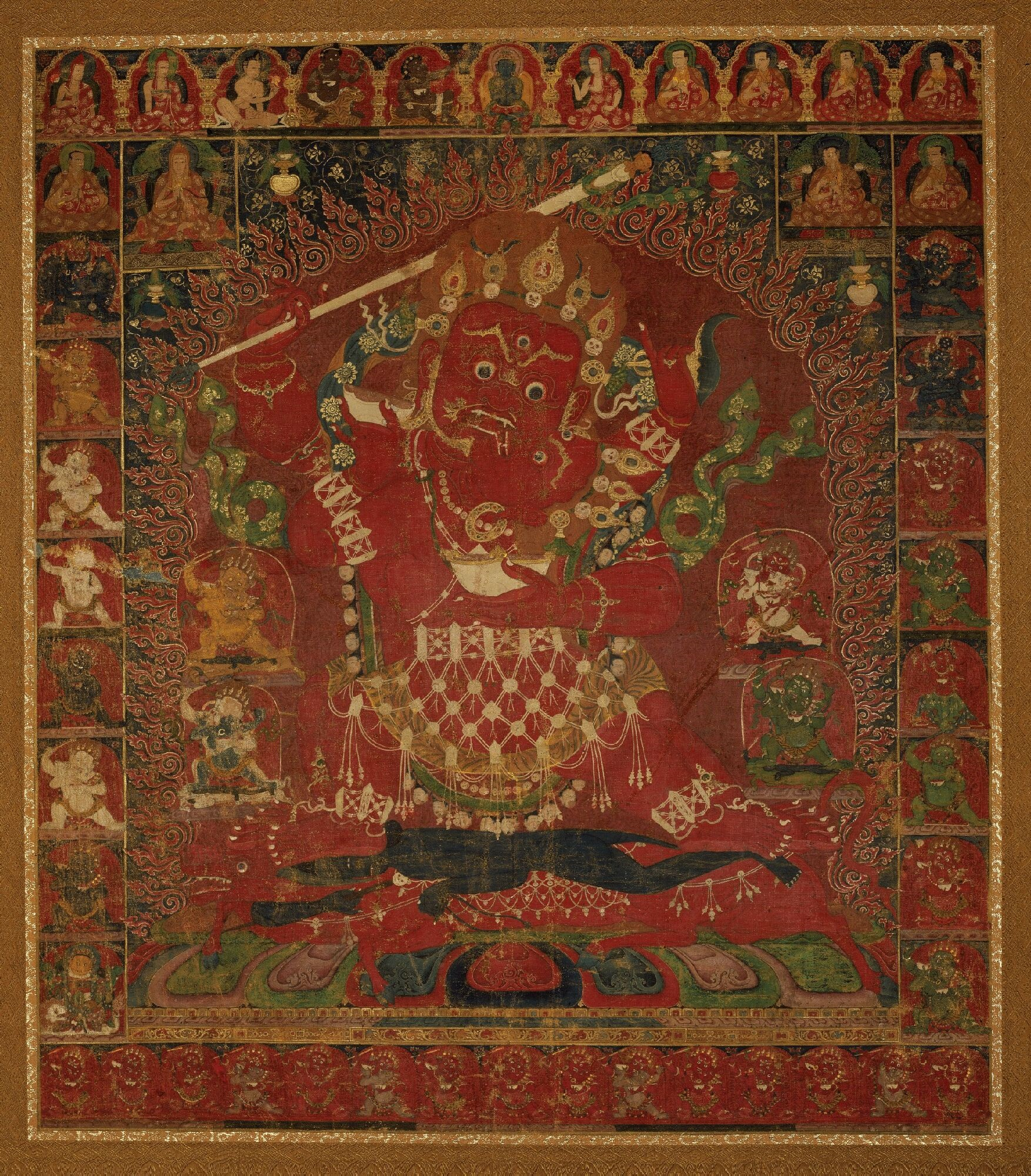 Yamari, Rakta (Buddhist Deity), 16th century, Boston MFA